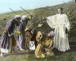 A hand-painted still photograph from the 1915 film The Life of Nephi